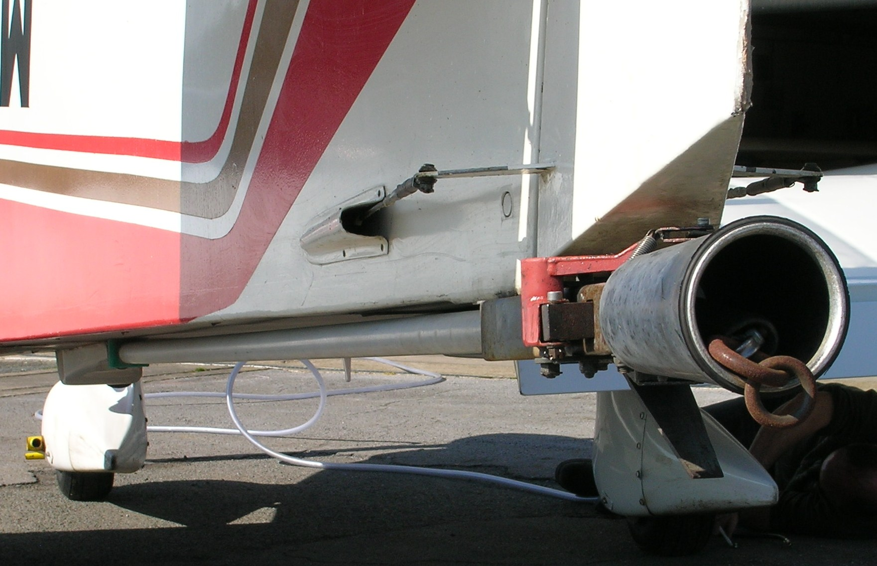 Tail section of a Robin DR300. The device mounted under the fuselage keeps the rope used for aerotowing. The rope has not been used for a longer time, so the rings at the end of it are rusted.